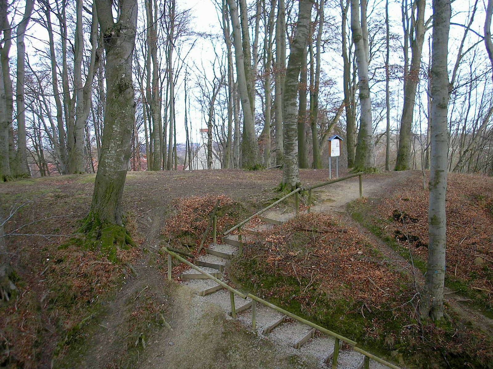 Former Roggenstein castle near Fuerstenfeldbruck, Upper Bavaria, Germany. The central castle. View from the west